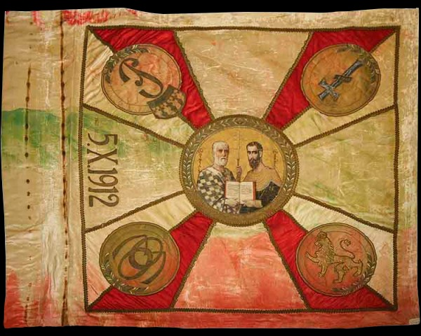 The flag of the 11th Seres Battalion which was designated as the principal flag of the Macedono-Odrin Volunteer Corps